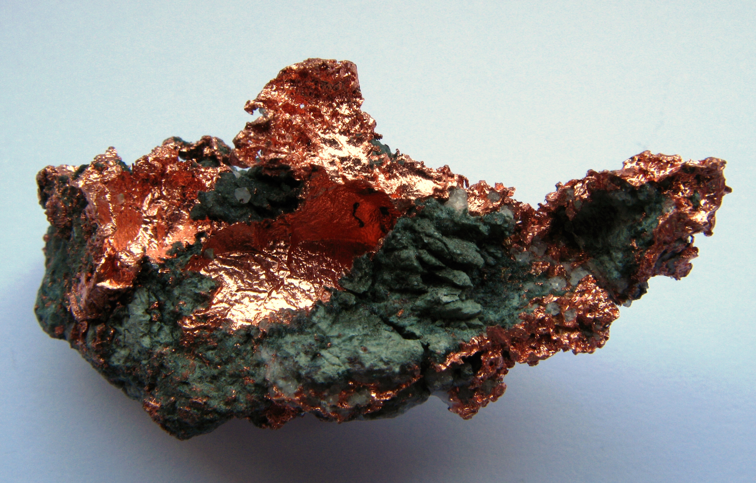 Native copper (Size: 4,4 cm x 2,2 cm x 2,0 cm)